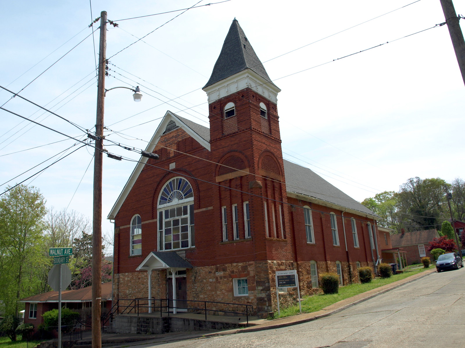 Mount Zion Baptist Church in Anniston, Alabama, listed on the National Register of Historic Places